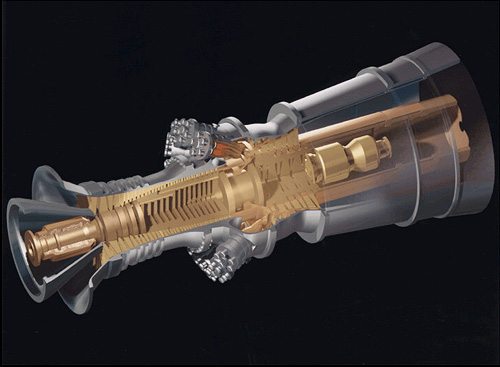 A GE H Series stationary gas turbine used for electrical power generation.